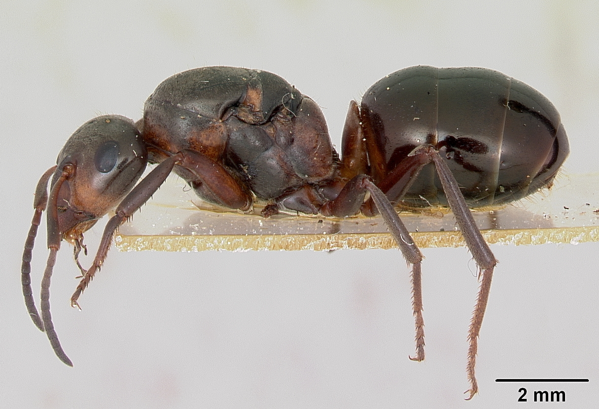 Profile view of ant Formica lugubris specimen casent0173009.